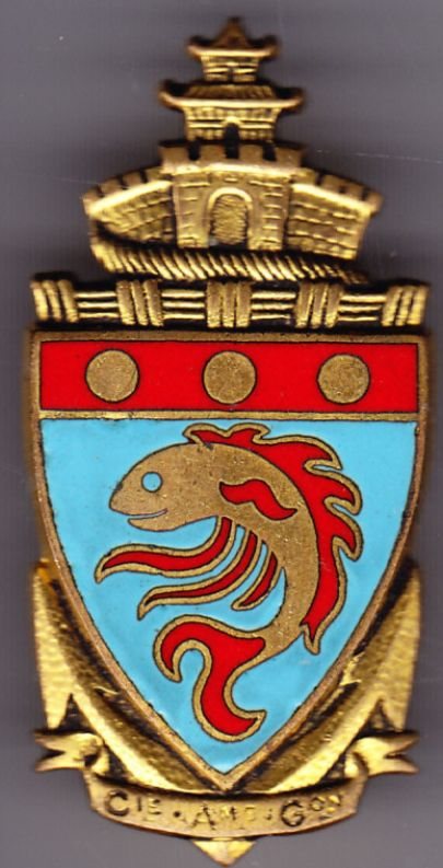 The crest of Haiphong from 1888 to 1955.